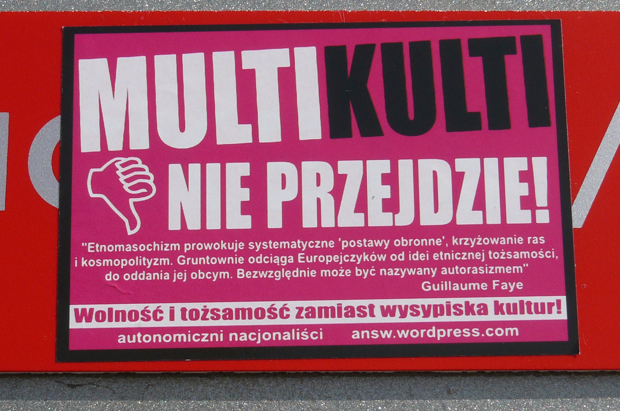 Guillaume Faye in Wroclaw.